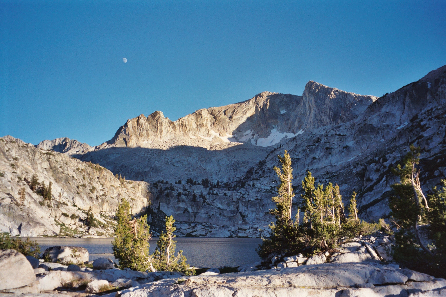 Hortense Lake, in the John Muir Wilderness, Sierra Nevada, California, USA